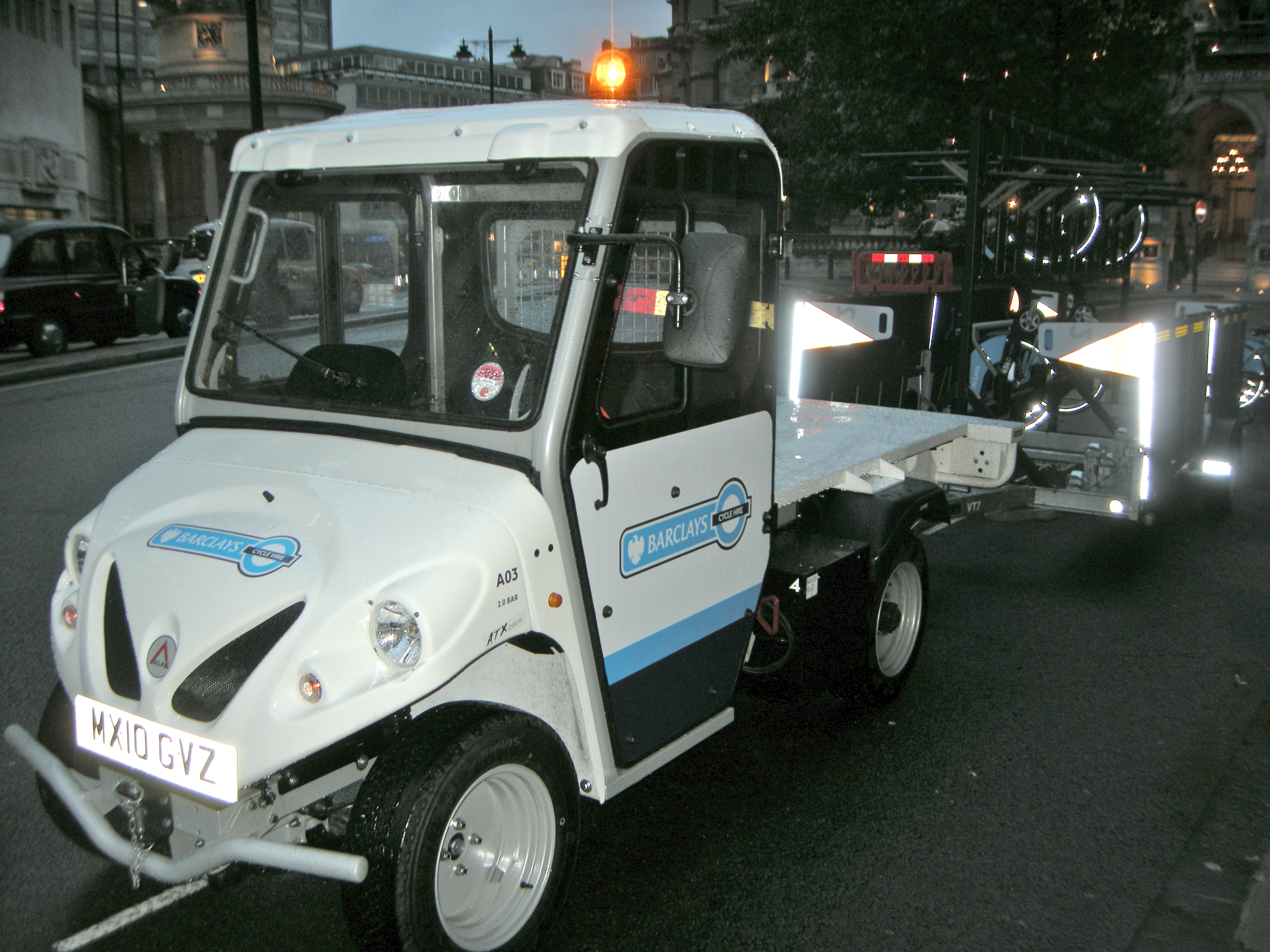 An Alkè ATX280E electric utility vehicle, used by the operators of London's Barclays Cycle Hire scheme to redistribute bicycles around the system. Seen at the docking station opposite Broadcasting House in Portland Place.